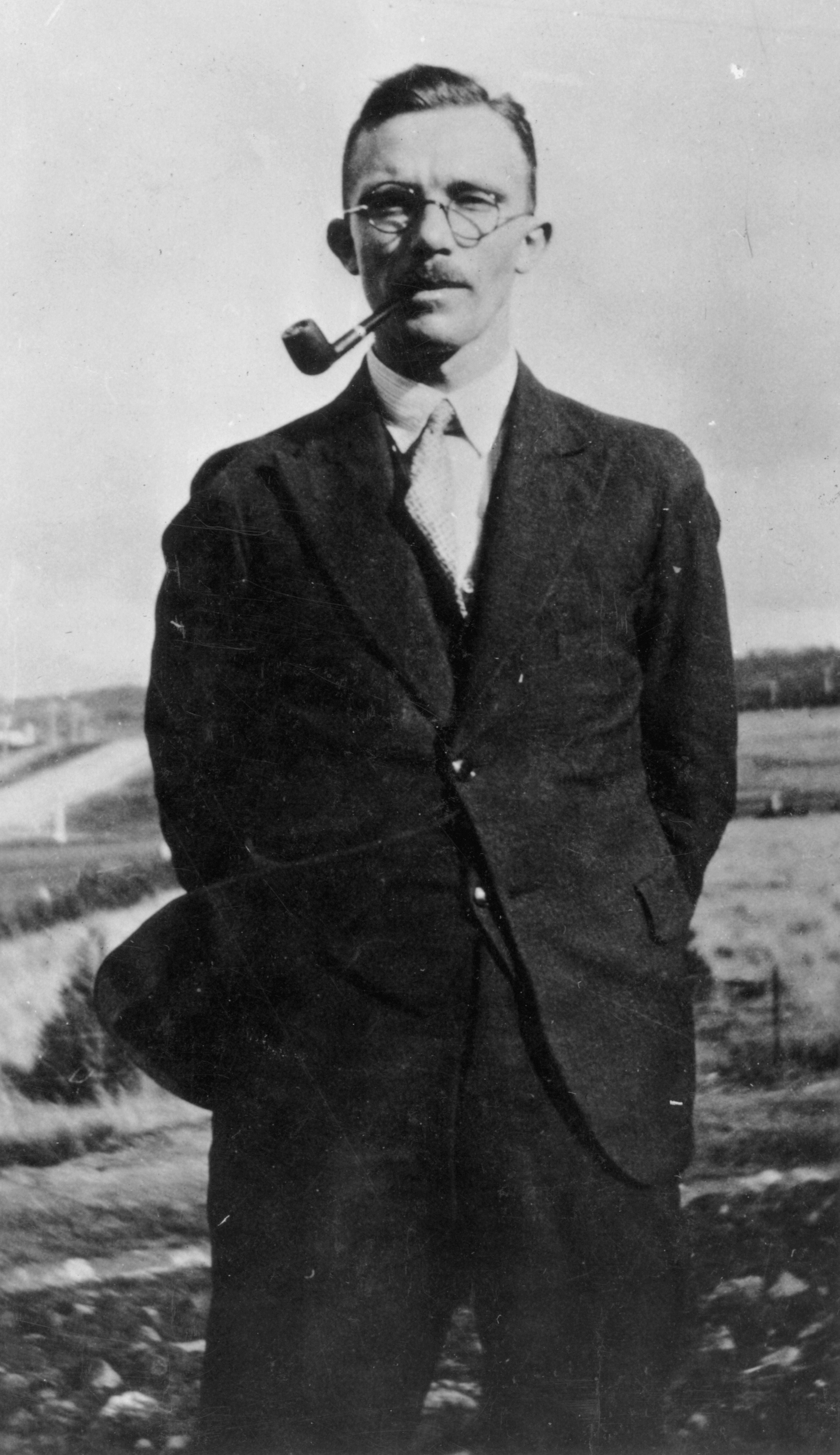 Photograph of Ulrich Ellis, Australian writer and political activist